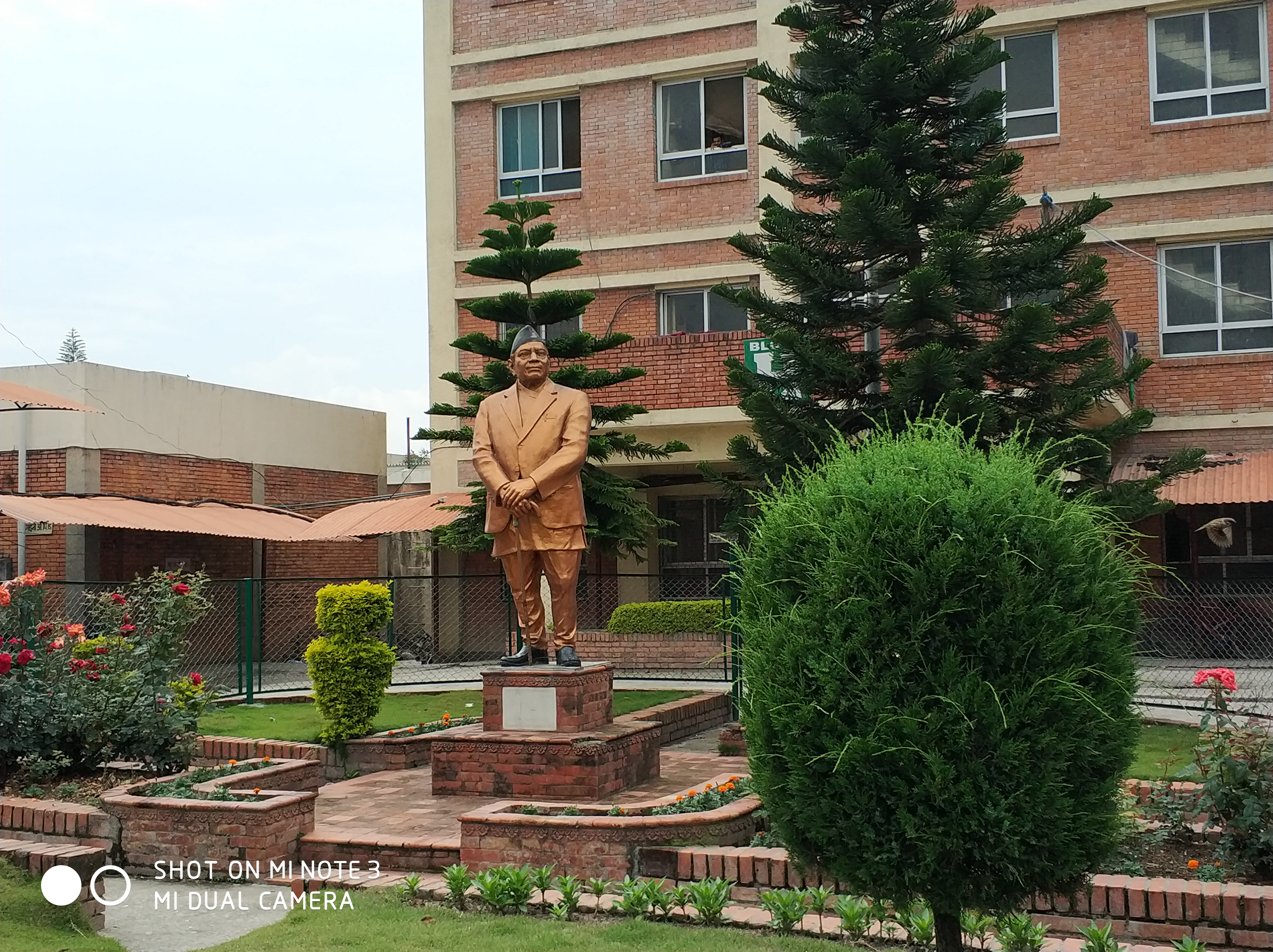 Statue of leader of Nepal Ganesh Man Singh at Teaching Hospital(Institute of Medicine (IOM)), Maharajgunj, Kathmandu.